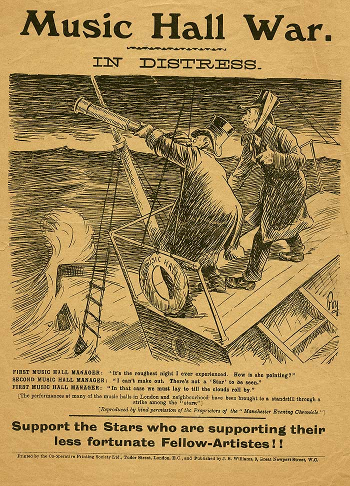 Poster canvassing support for the Music hall strike of 1907.